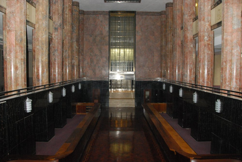 The Banking Hall of the Old Mutual Building, Darling Street, Cape Town